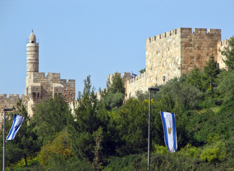 Photo by User:Gilabrand. View of David's Citadel from Hinnom Valley, April 2007